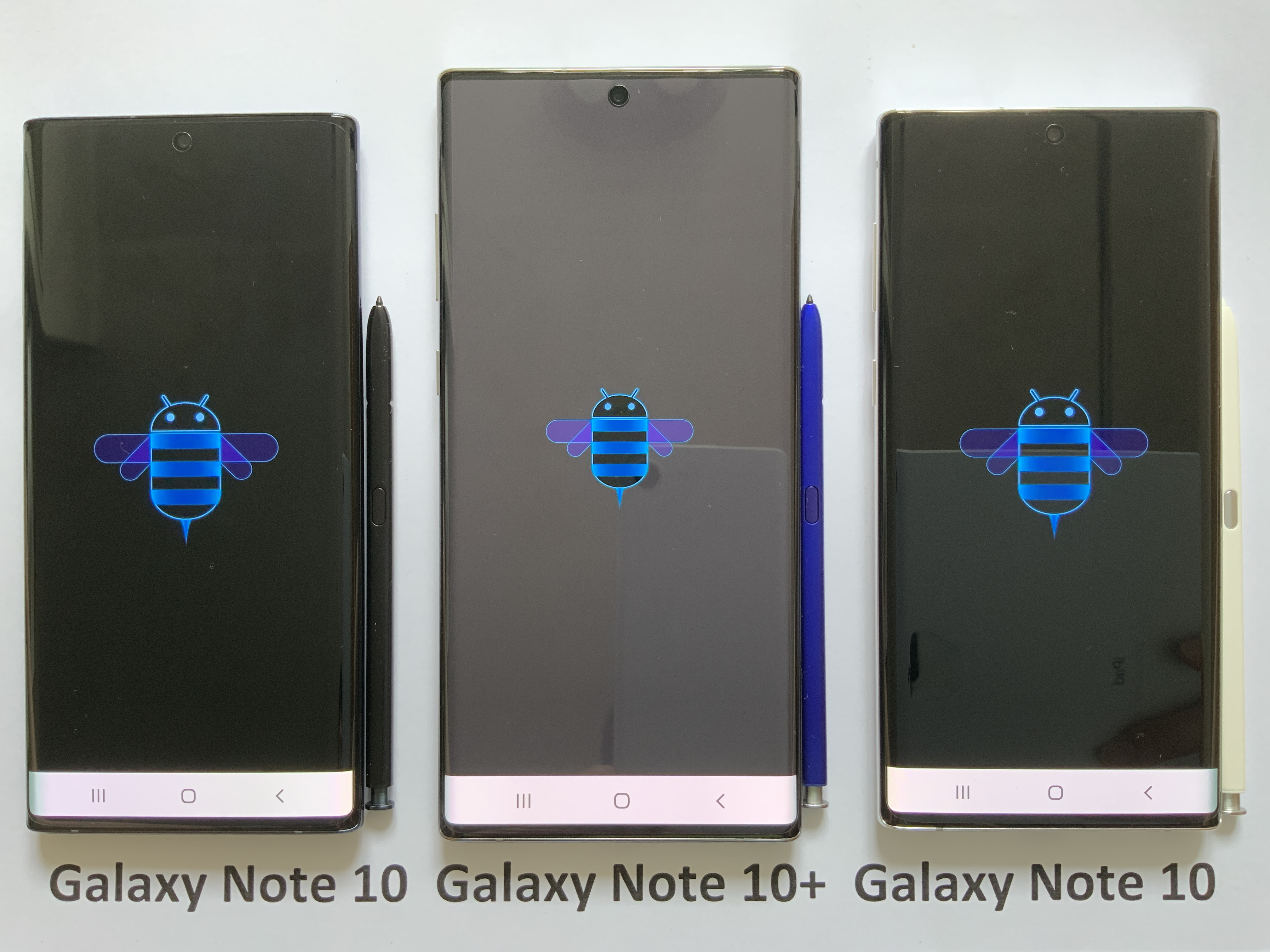 Android Honeycomb Easter eggs shown on Samsung Galaxy Note 10